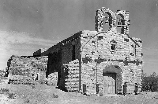 Mission San Antonio Paduano del Oquitoa in the Sonoran Desert — in present day Oquitoa, Sonora (state), México. Founded by Jesuit missionary Eusebio Kino in 1689.